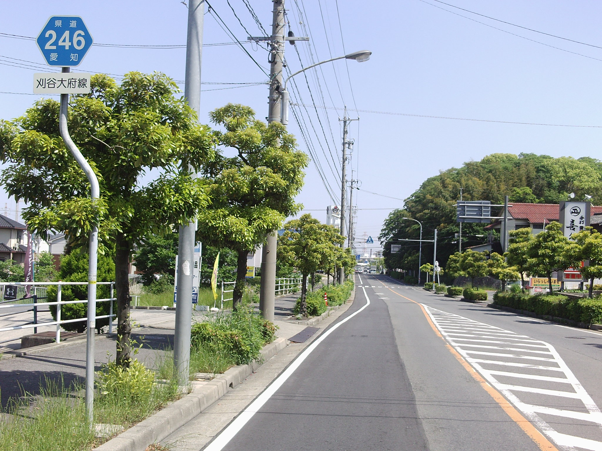 Aichi prefectural road No.246 in Asahicho 3-chome, Obu, Aichi.